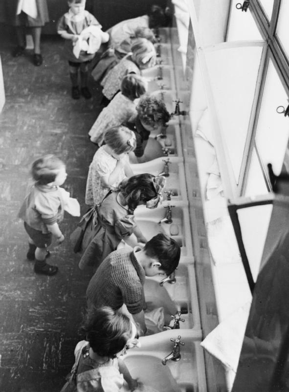 Day Nursery in Tottenham, London, England, 1940 Boys and girls wash their hands in the rows of sinks at the Park Lane Municipal Day Nursery. These basins are just the right height for these young children.